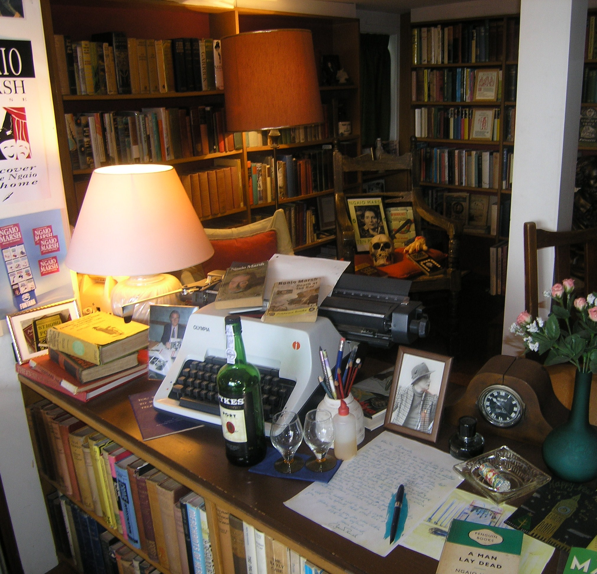 The entrance desk at Ngaio Marsh House, Christchurch, the former home of crime mystery novelist Ngaio Marsh. Read more about the House and Ngaio Marsh at the museum website.